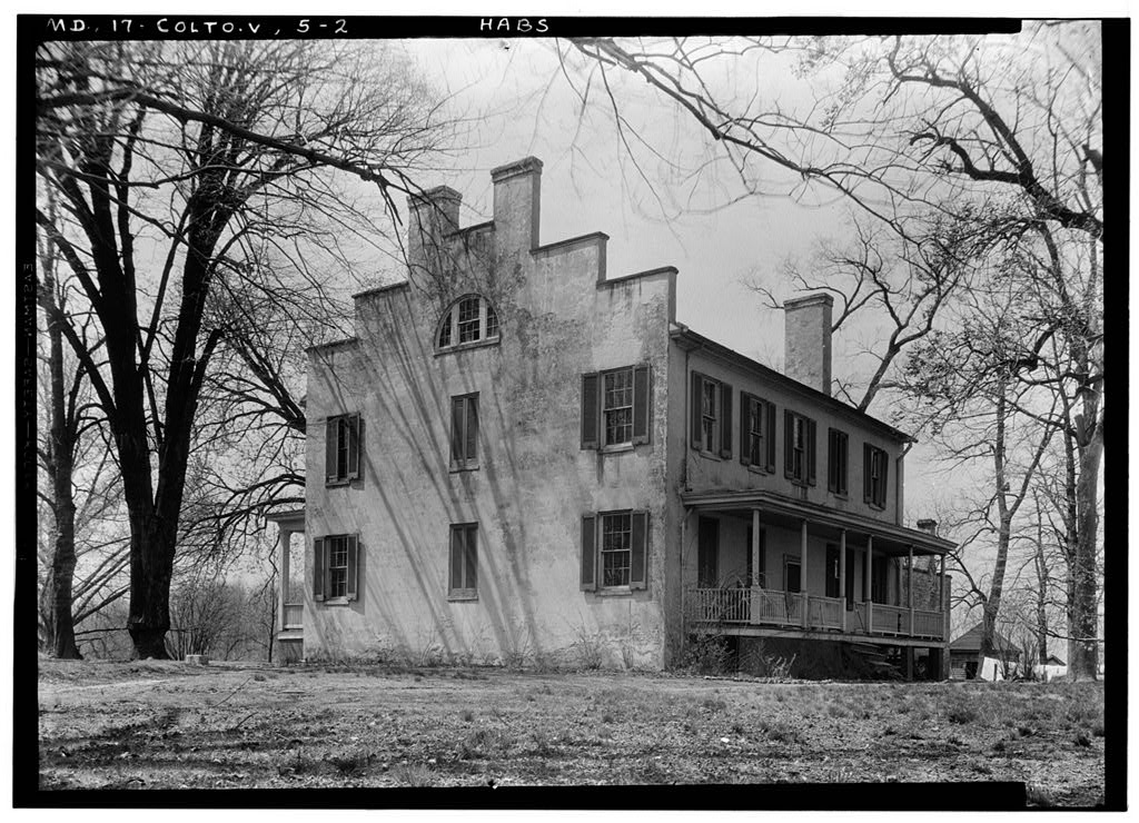 The Fairview Plantation, located in Prince George's County, Maryland.